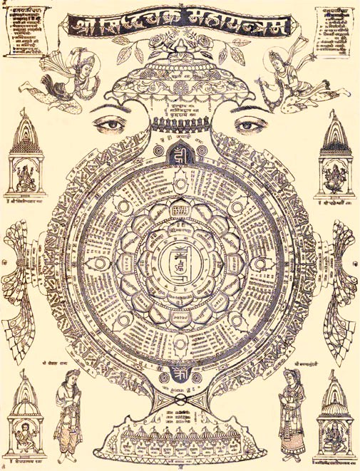 Siddhachakra Yantra - a mystic diagram used for religious rituals in Jainism for centuries